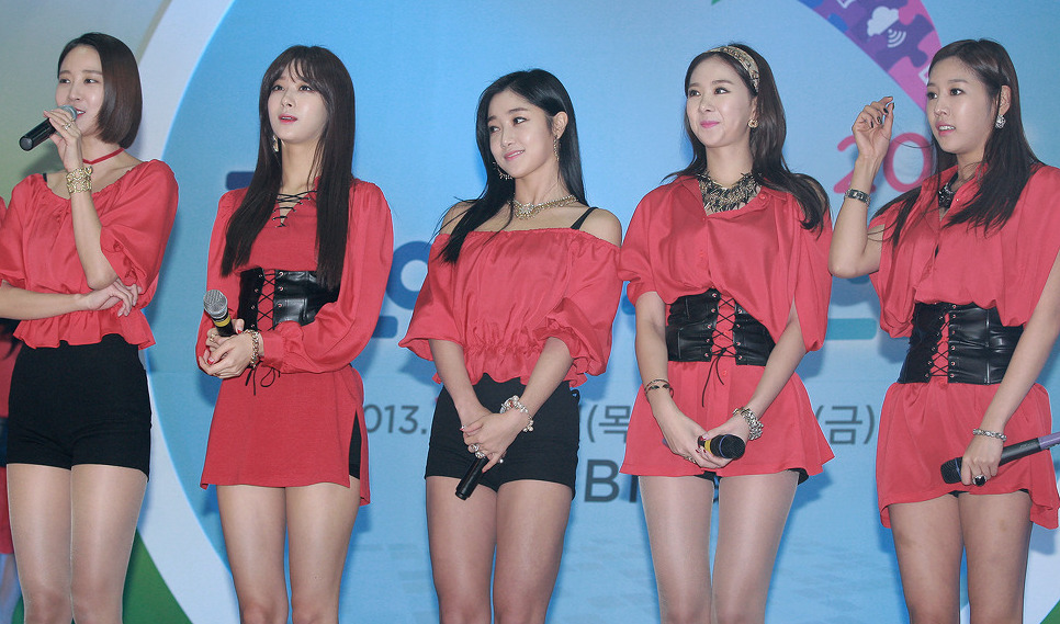 Nine Muses at Coex Center, Seoul, November 2013